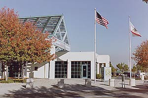 The station building at Irvine.